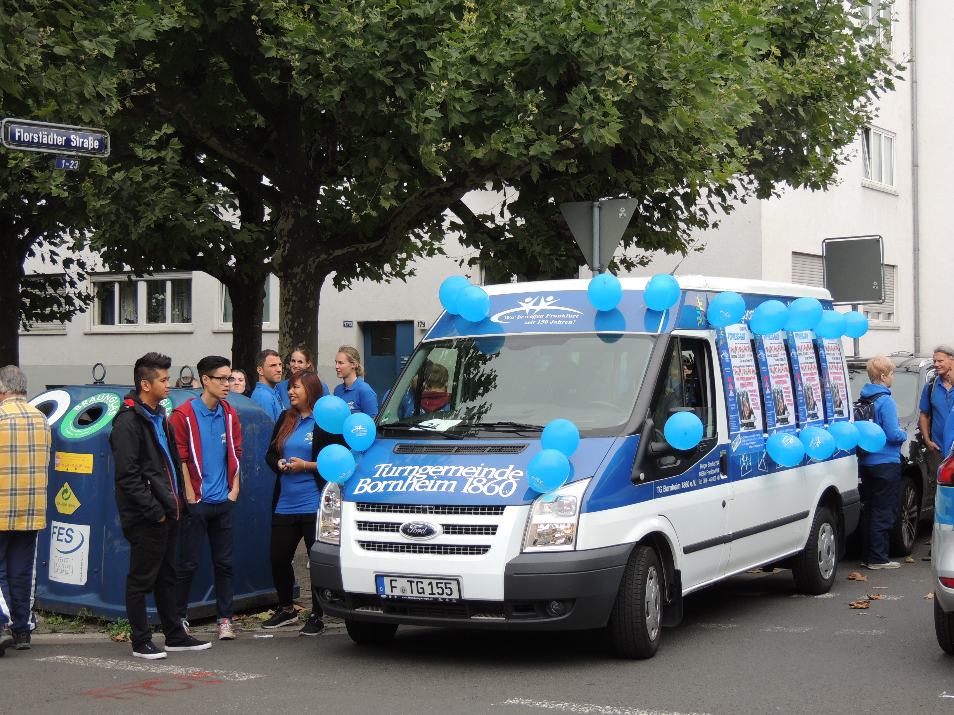 Van of the Turngemeinde Bornheim in the Bernemer Kerb procession line-up in the Bornheimer Hang settlement, in the Florstädter Straße in Frankfurt am Main-Bornheim, August 12th, 2017